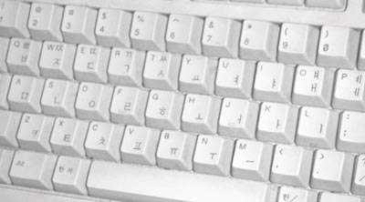 Hangul Keyboard